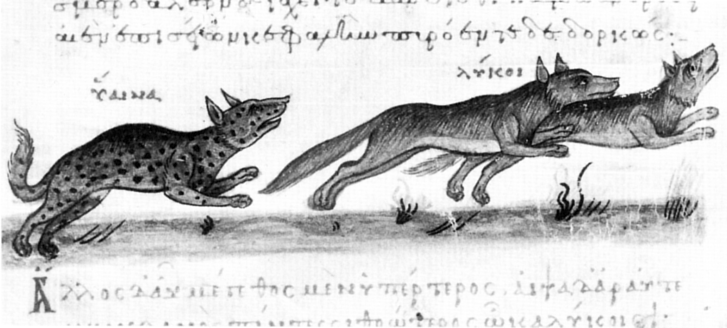 The thos hunting with wolves. Illustration from Oppian of Apamea Cynegetica. 10th century manuscript. Venice, Cod. Ven. Marc. Gr. Z 479, fol. 49v